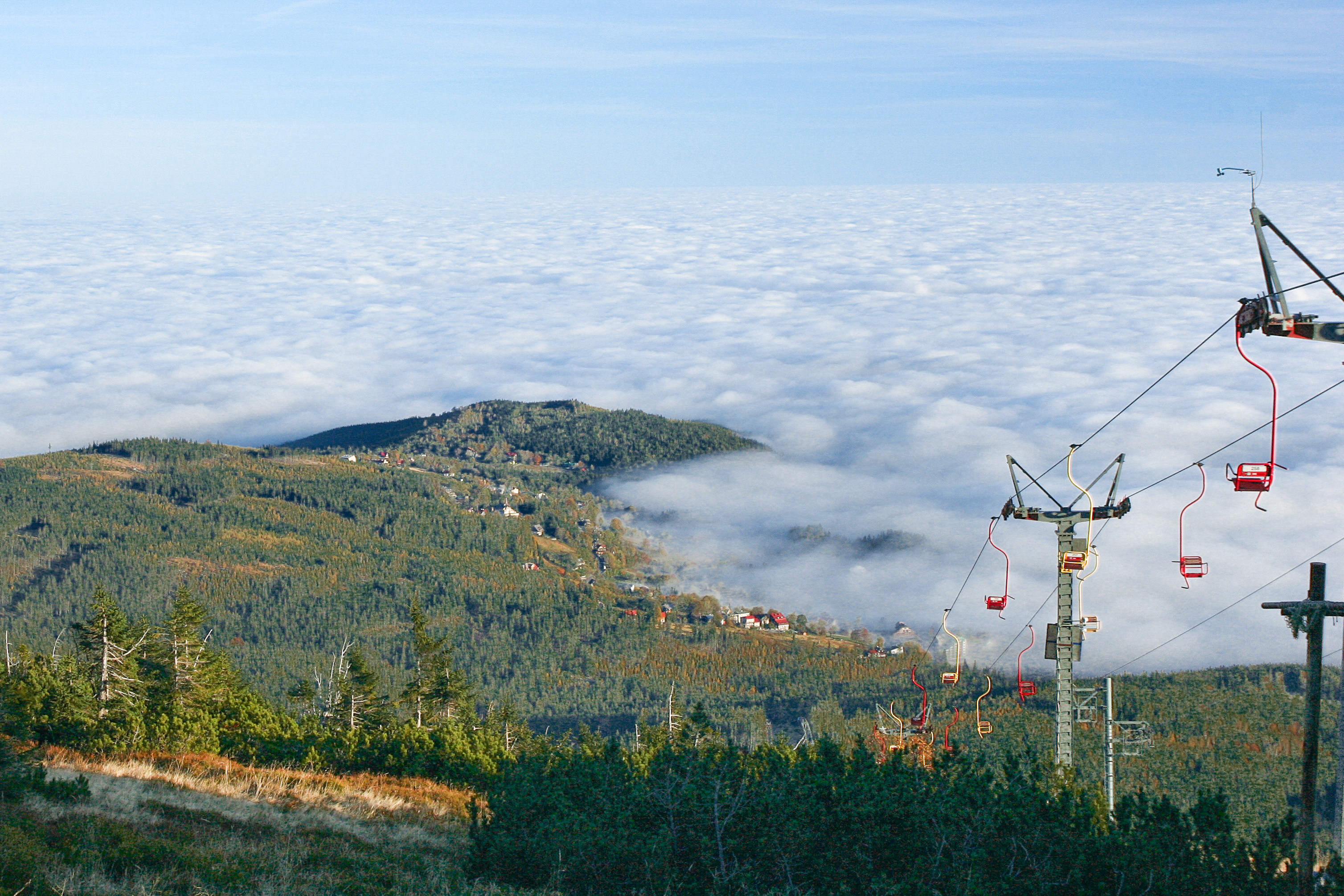 Temperature inversion - Karpacz, view from Kopa, Karkonosze, Poland.